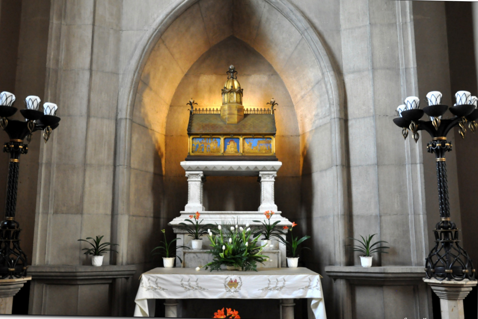 Reliquary of Jolenta of Poland. Franciscan church in Gniezno